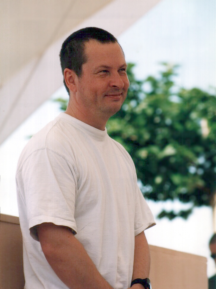 Lars von Trier at the Cannes Film Festival in 2000.